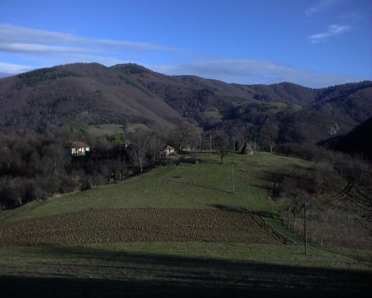 Kukavica mountain, Serbia